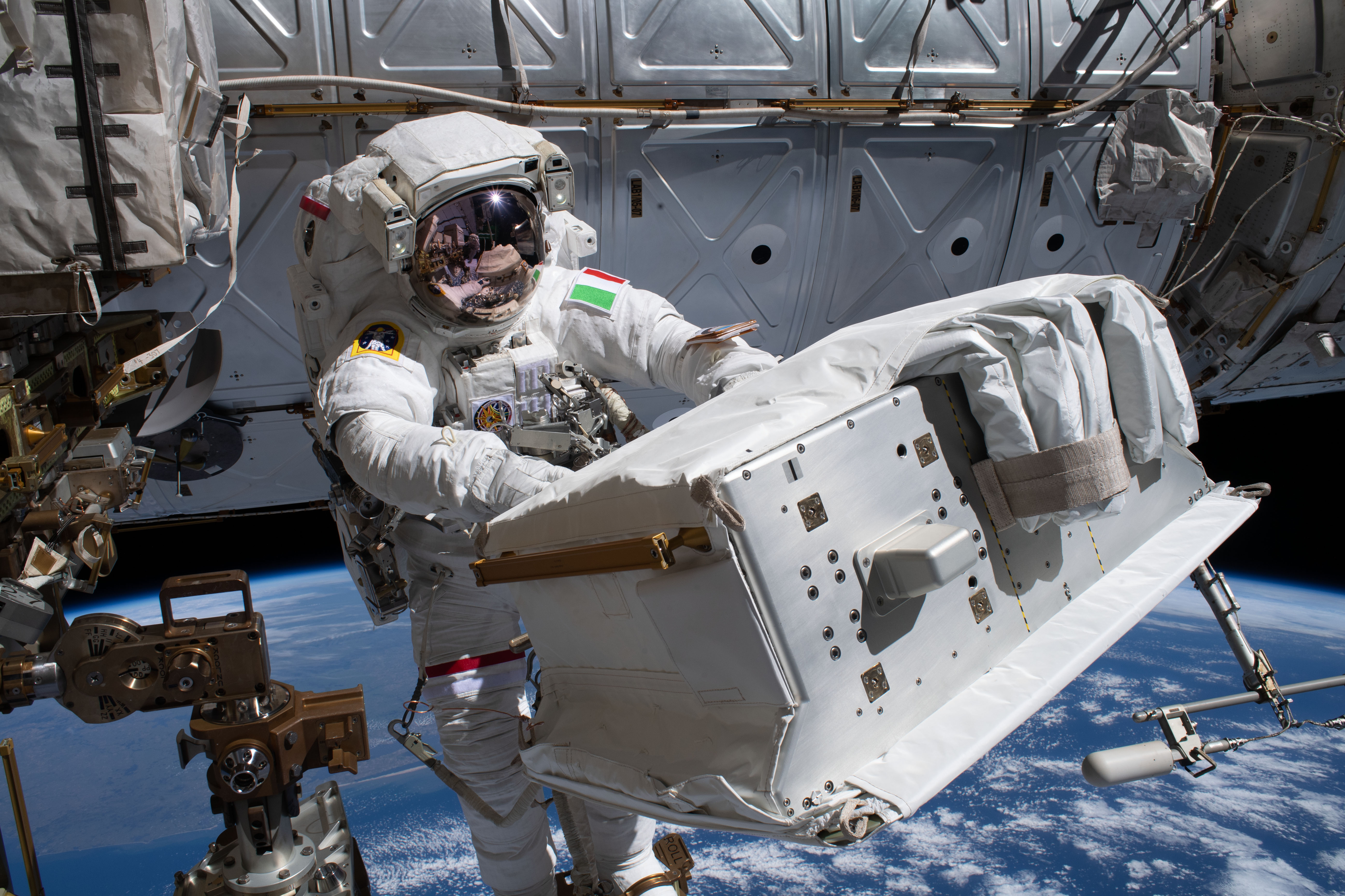 ESA (European Space Agency) astronaut Luca Parmitano, attached to the Canadarm2 robotic arm, carries the new thermal pump system that was installed on the Alpha Magnetic Spectrometer (AMS) during the third spacewalk to upgrade the AMS, the International Space Station's cosmic particle detector.